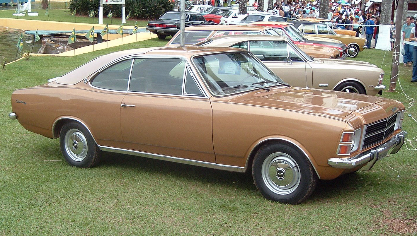 Early production Chevrolet Comodoro Coupé